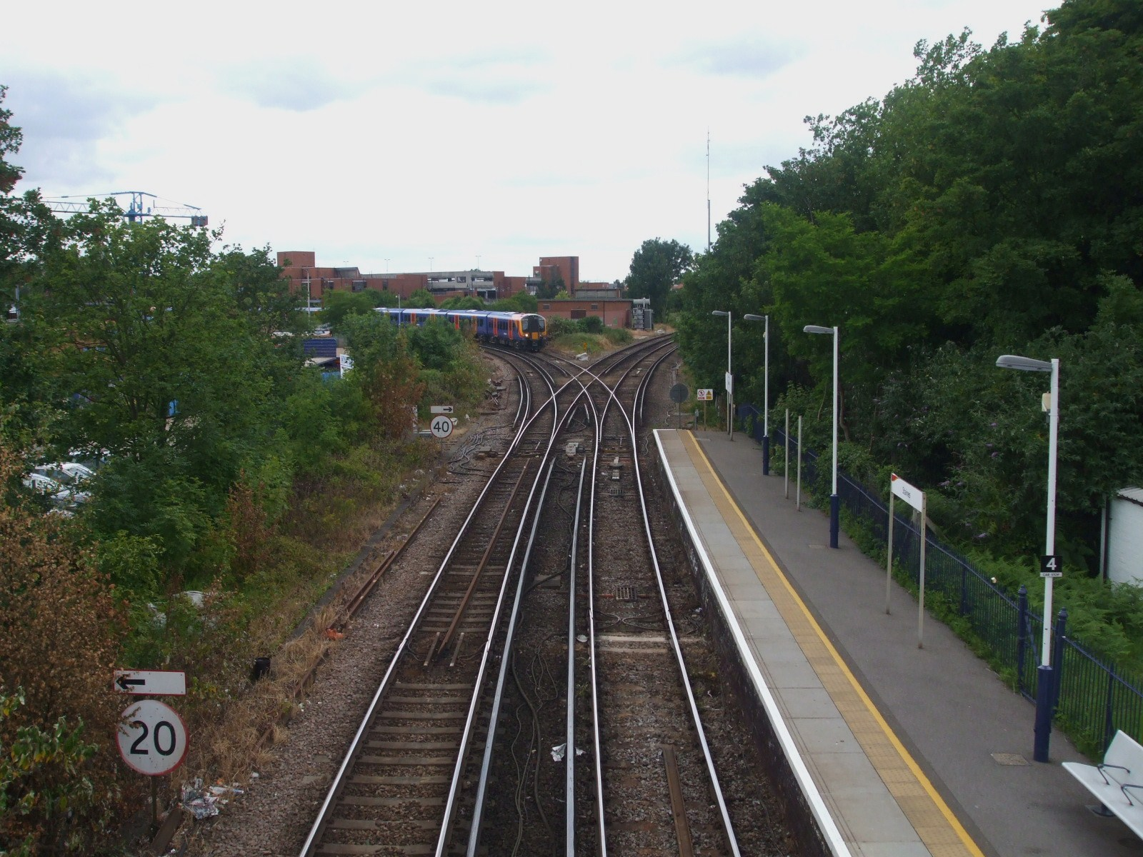 Staines station looking west from footbridge, with the junction between the Windsor line (bearing right) and the Ascot line (bearing left) visible ahead. A train from the Ascot direction can be seen approaching the station with a London service.